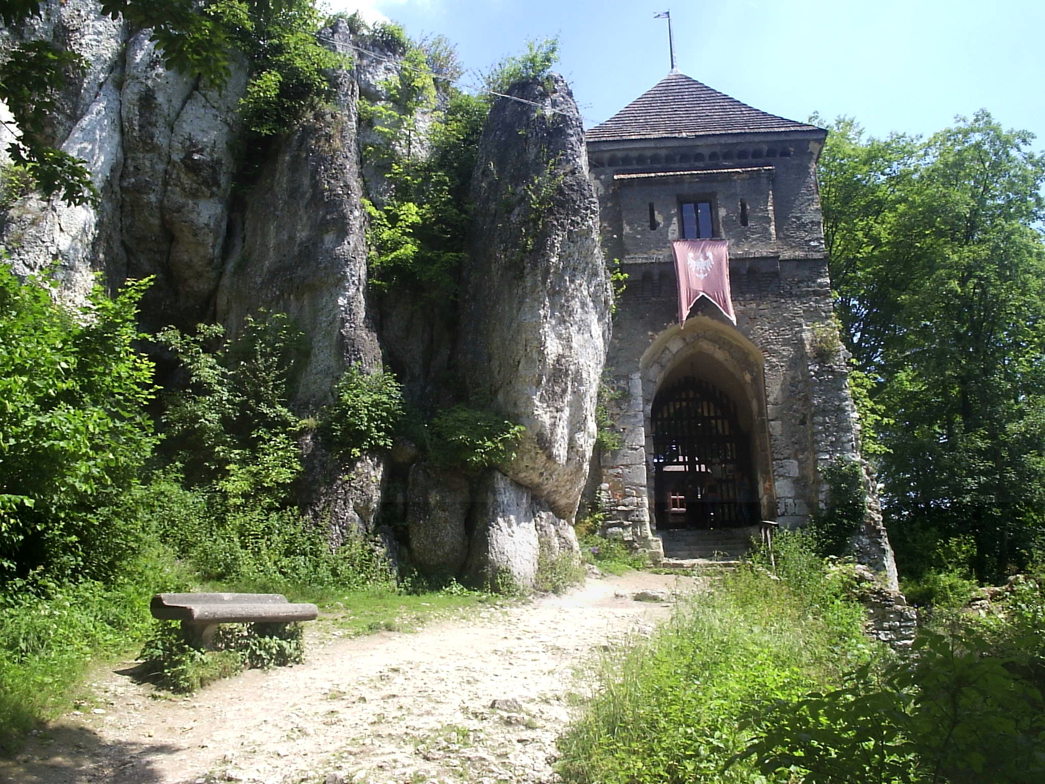 Castle Ojców, Poland